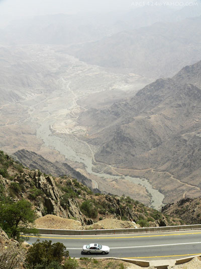 Part of Al-Baha - Almikhwah mountain road.